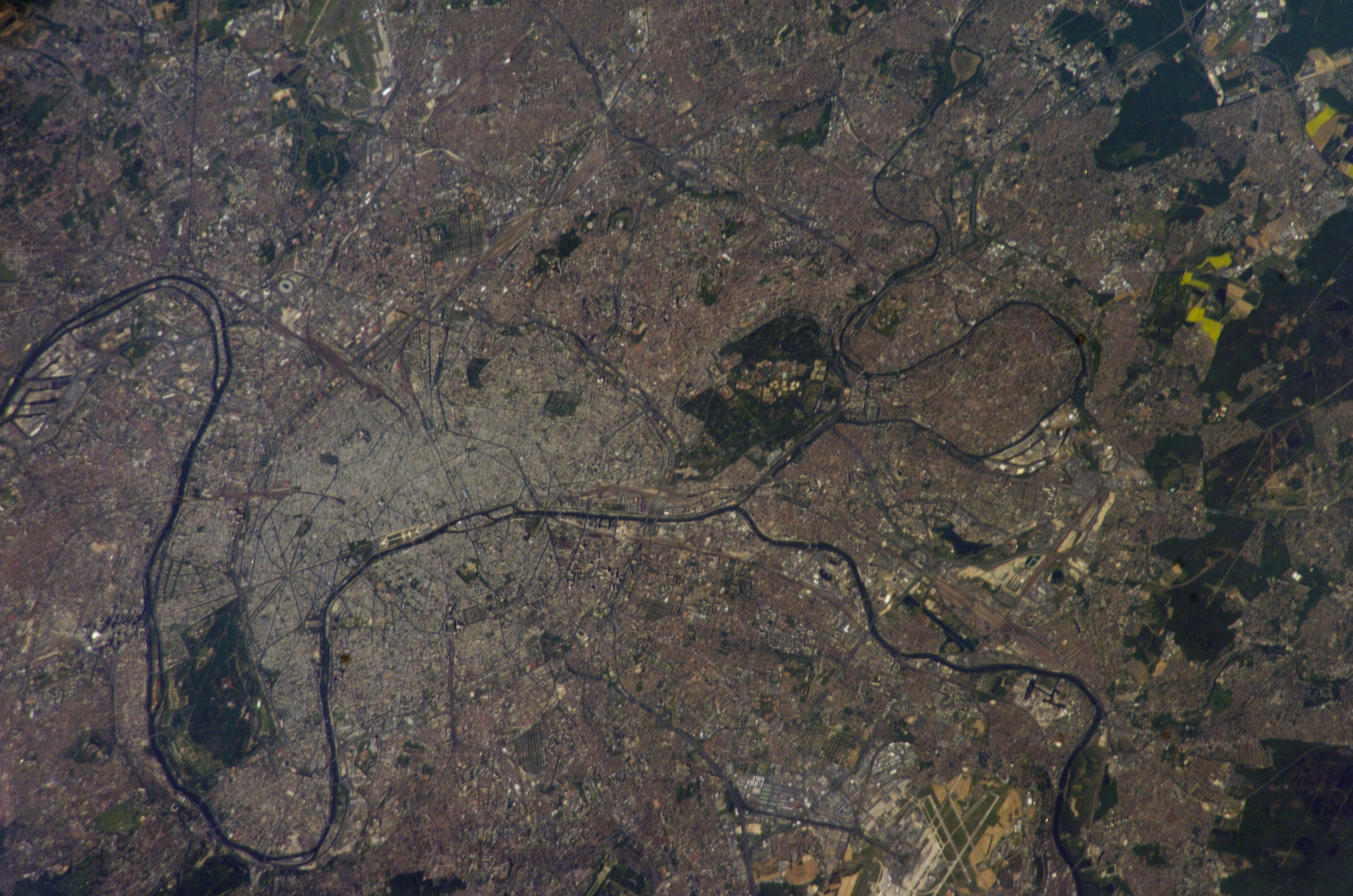 Satellite picture of Paris by NASA. Mission: ISS004 Roll: E Frame: 10413 Mission ID on the Film or image: ISS004 Country or Geographic Name: FRANCE Center Point Latitude: 49.0 Center Point Longitude: 2.5 (Negative numbers indicate south for latitude and west for longitude)